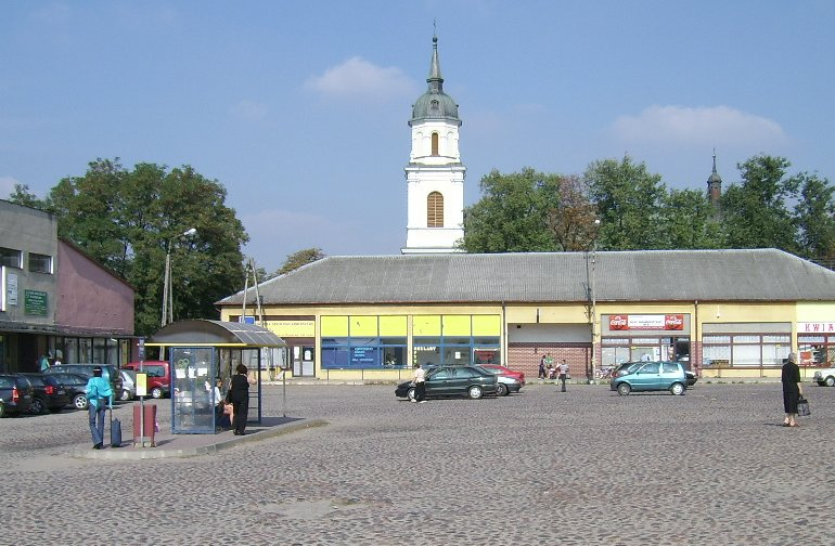 Market square in Żelechów, Poland